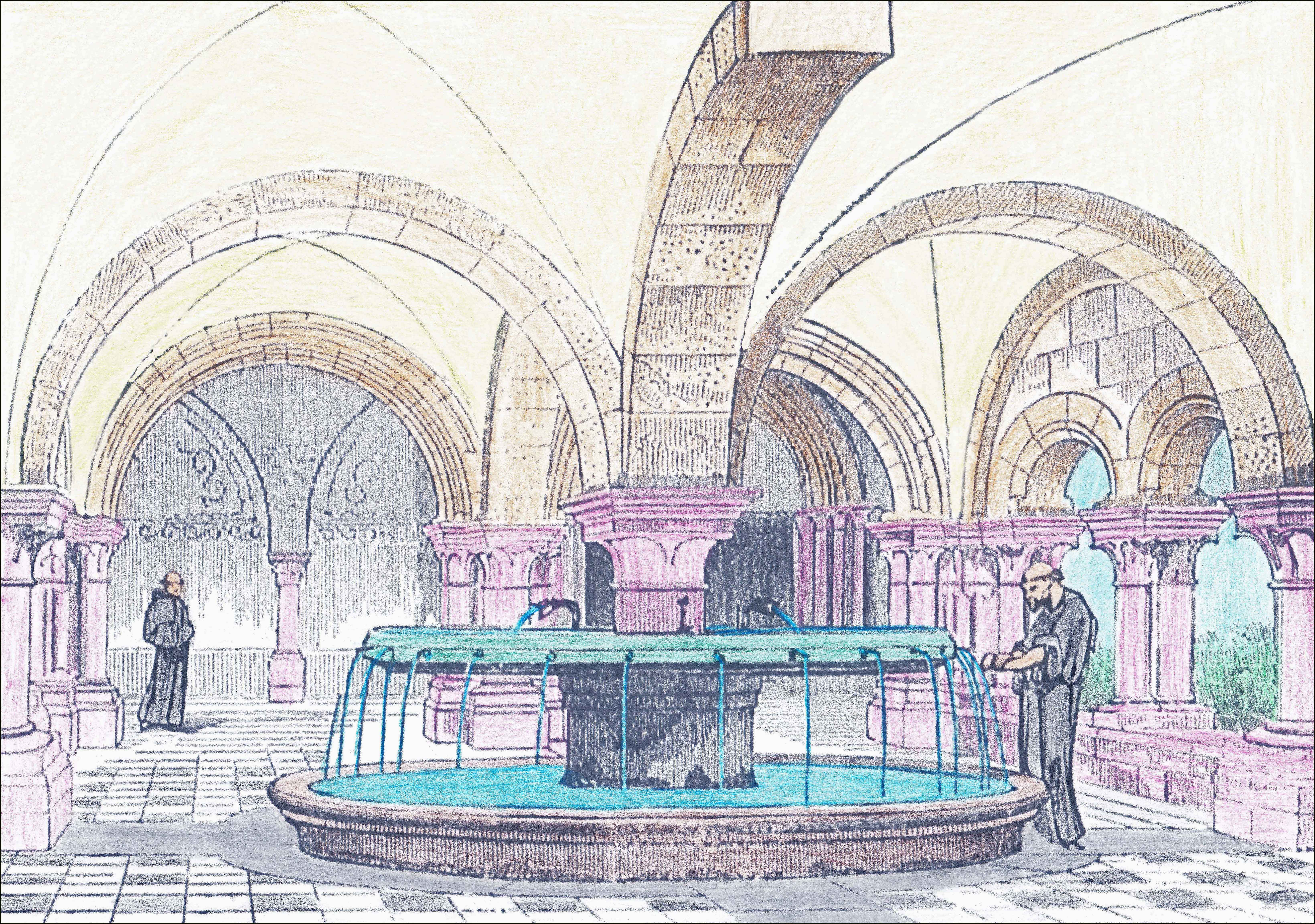 Typical cloister fountain.